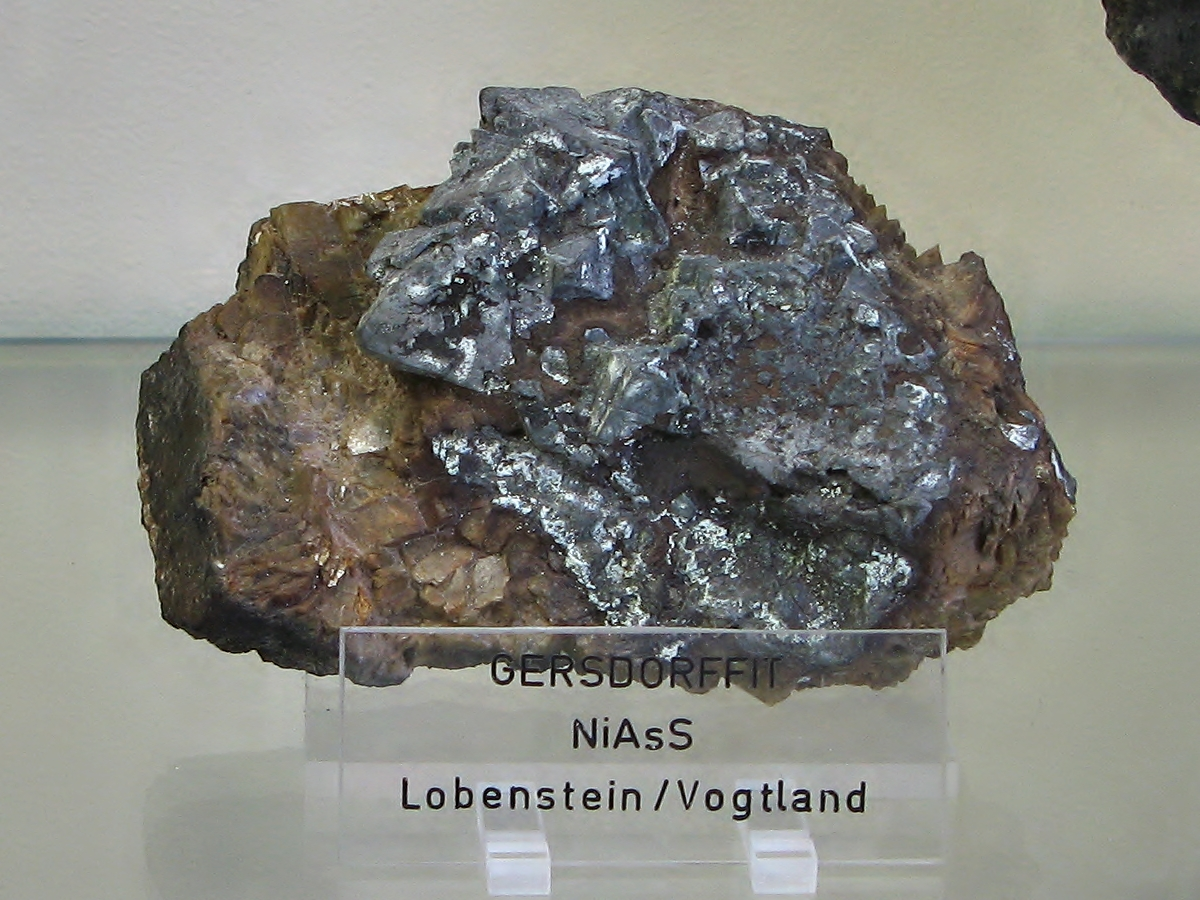 Gersdorffite - Locality: (Bad) Lobenstein, Vogtland, Germany - Exposed in the Mineralogical Museum, Bonn, Germany